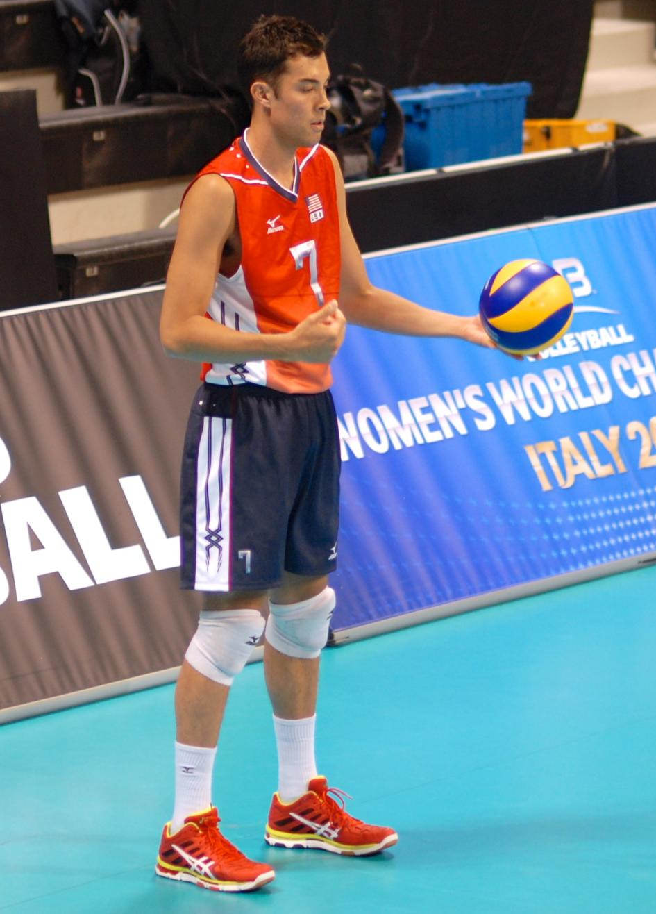 Kawika Shoji, USA vs Russia World League 2014